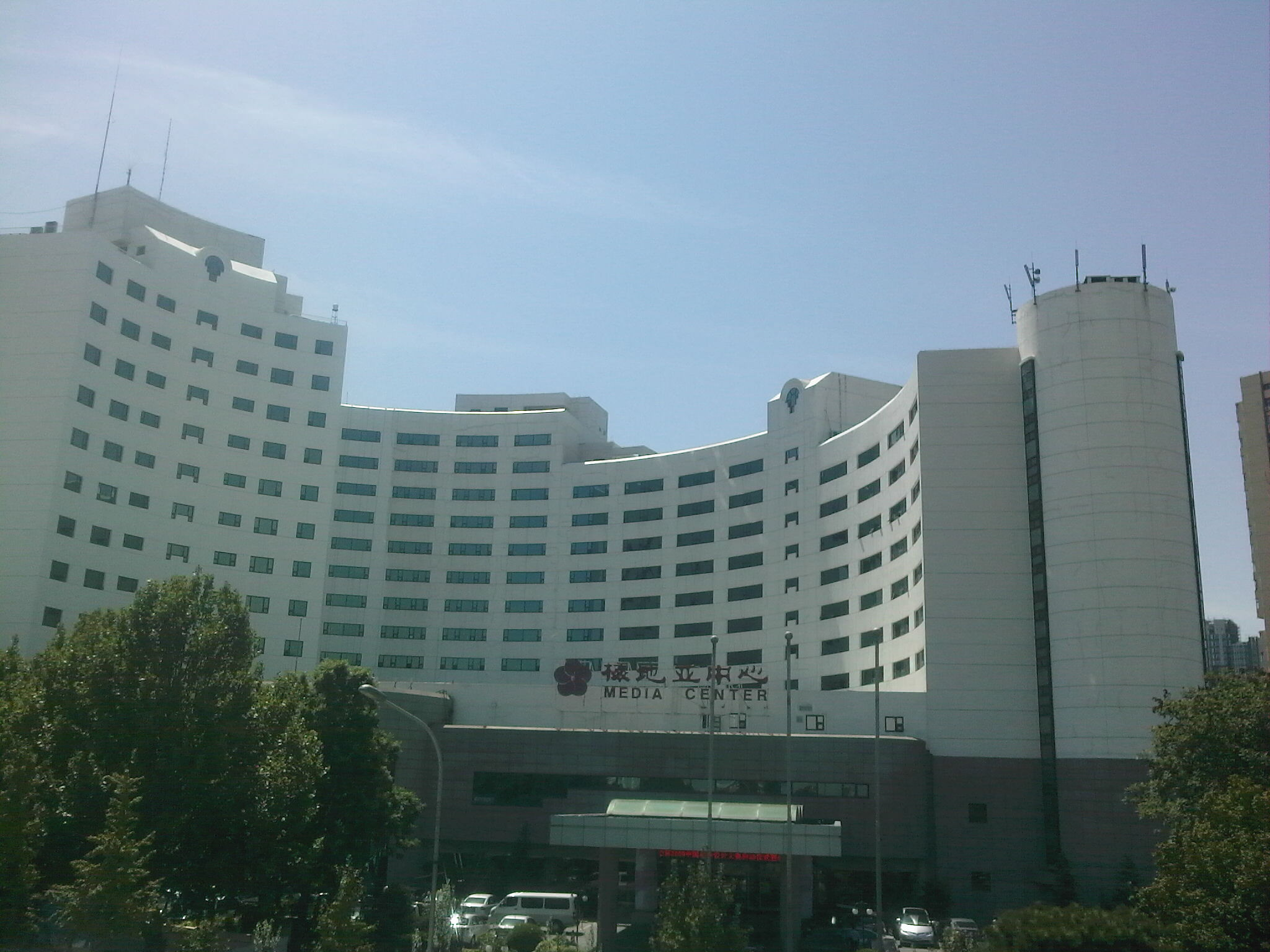 Beijing Media Center